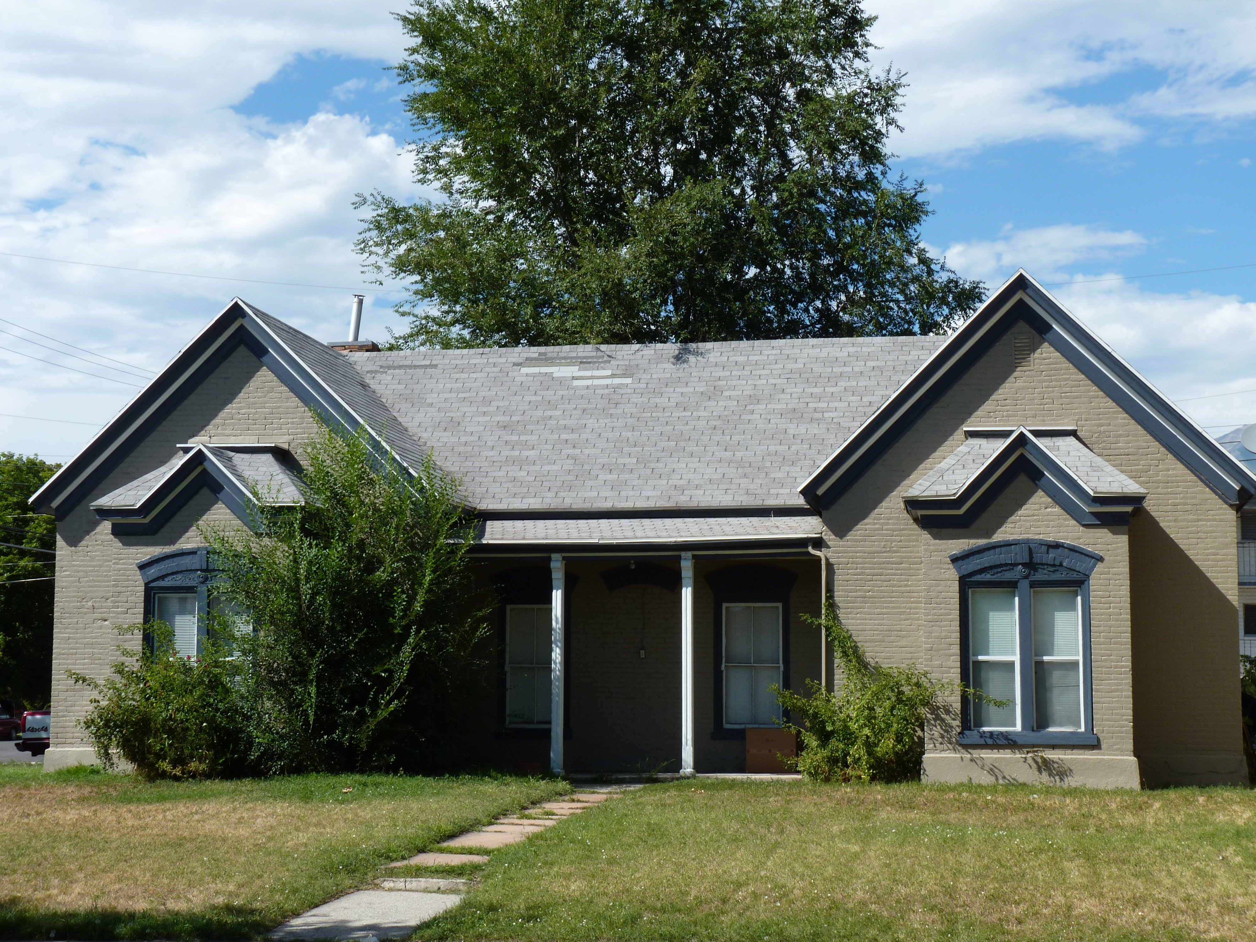 The Charles E. Davies House is located at 388 West and 300 North in Provo Utah. It is listed both on the NRHP and on Provo's Historic Landmark Registry.